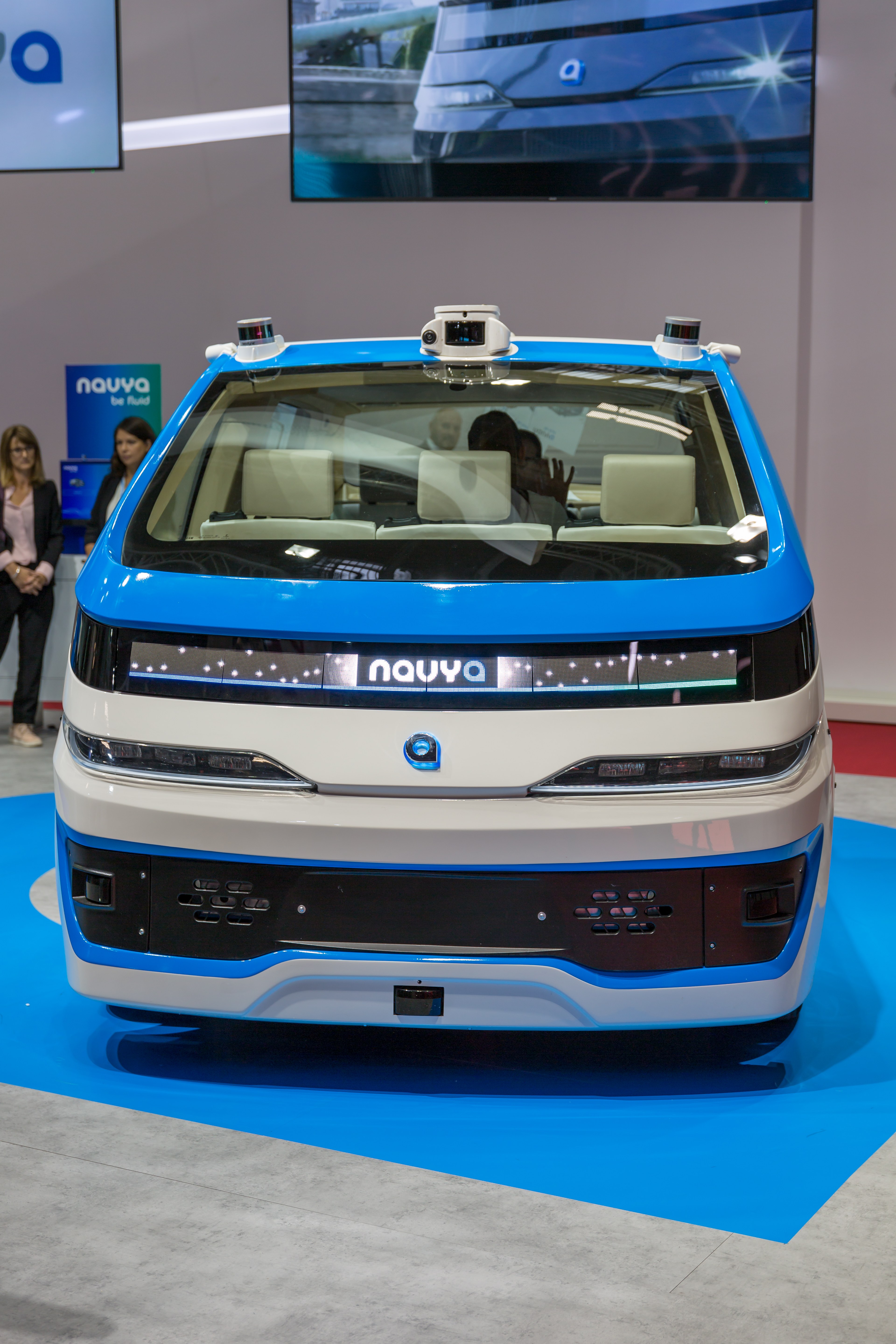 Press days at Mondial Paris Motor Show 2018